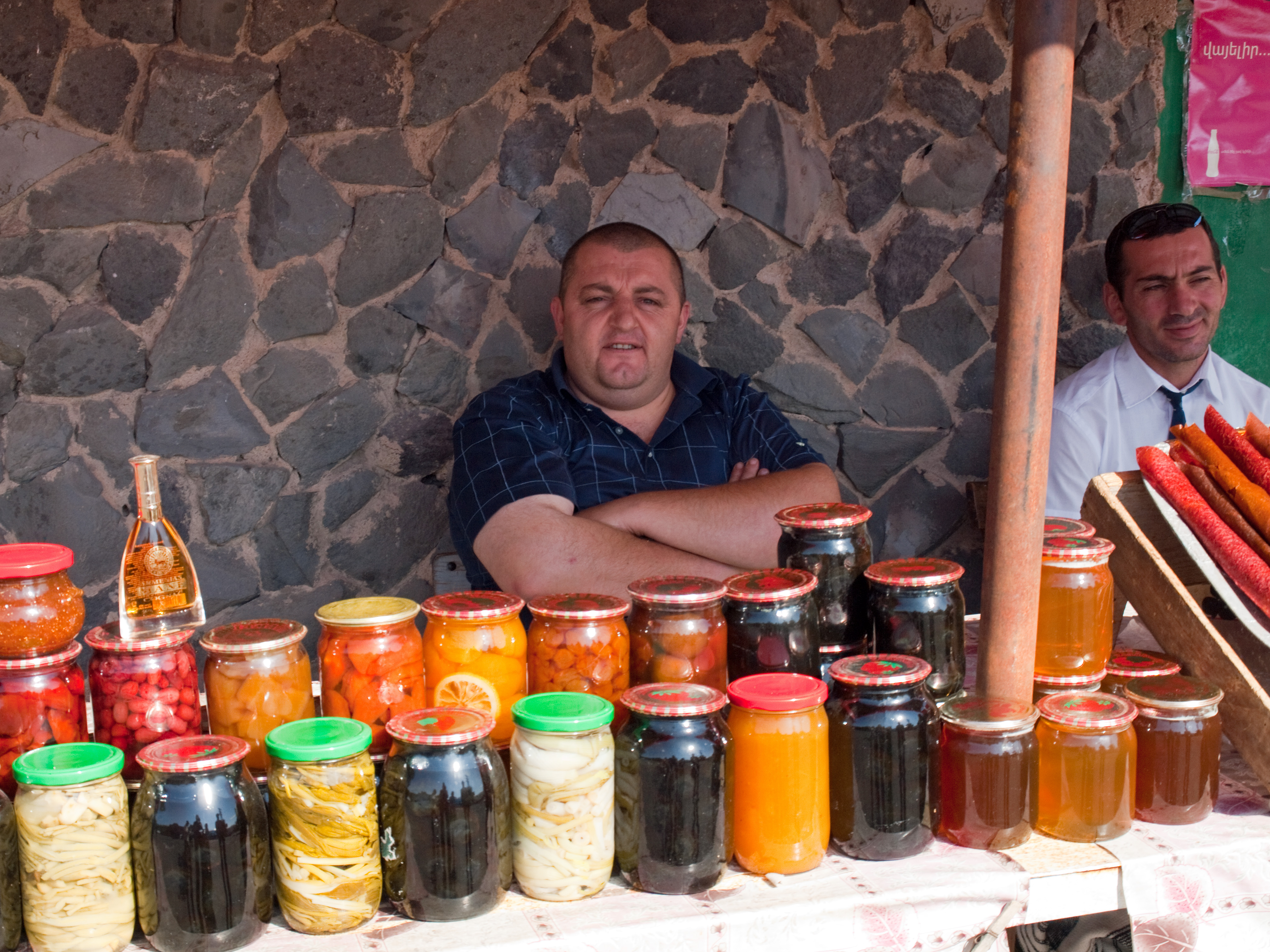 Assorted jams and pickled goods, Armenia.